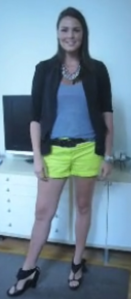 The lovely Ford+ plus model Candice Huffine stopped by our office to say hello and to show off her summer style. We chatted about her style and her love of her black blazer, which we totally agree with her that it is a closet must have.